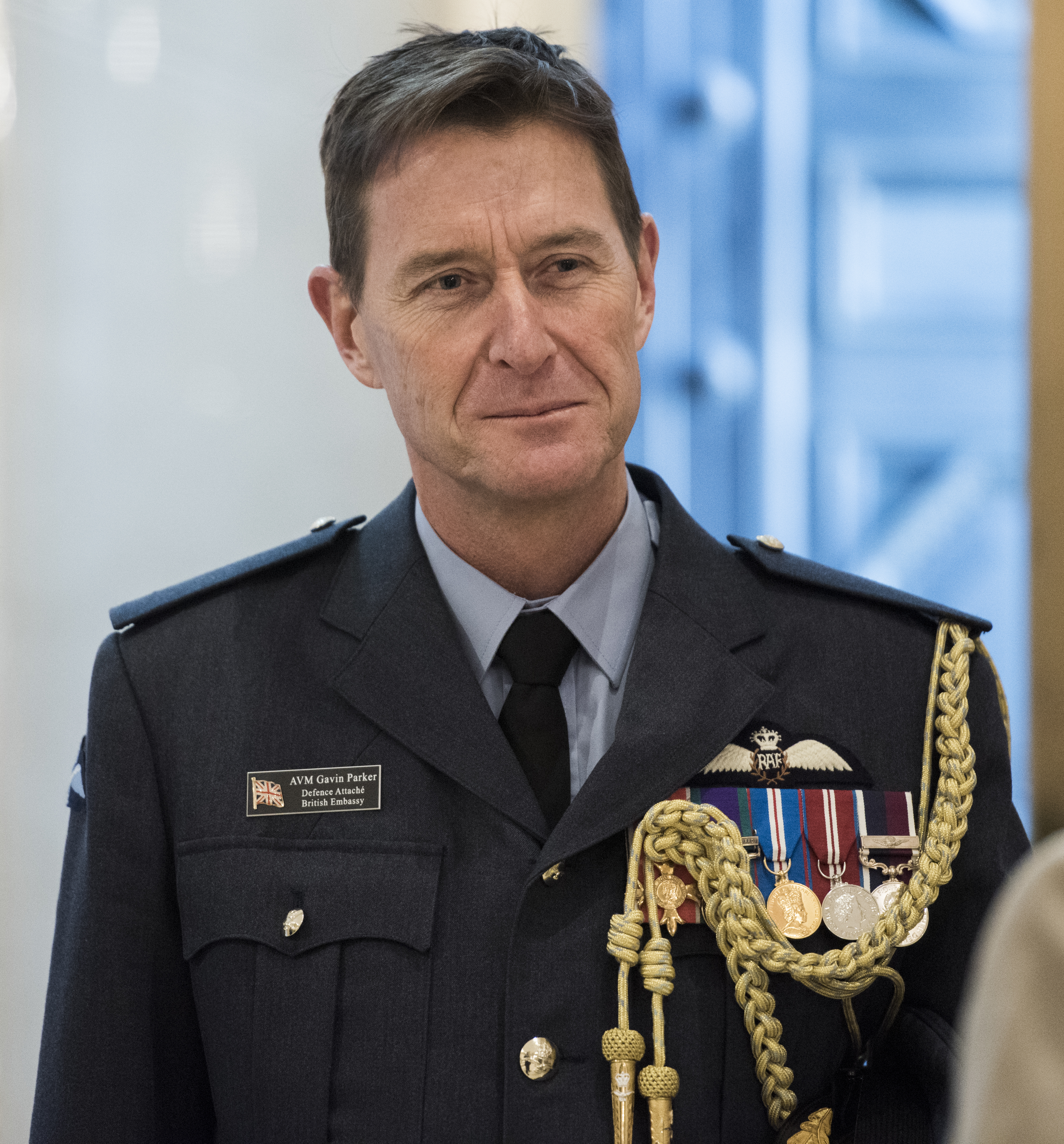 Air Vice-Marshal Gavin Parker, defense attaché and head of british defense staff, British Embassy